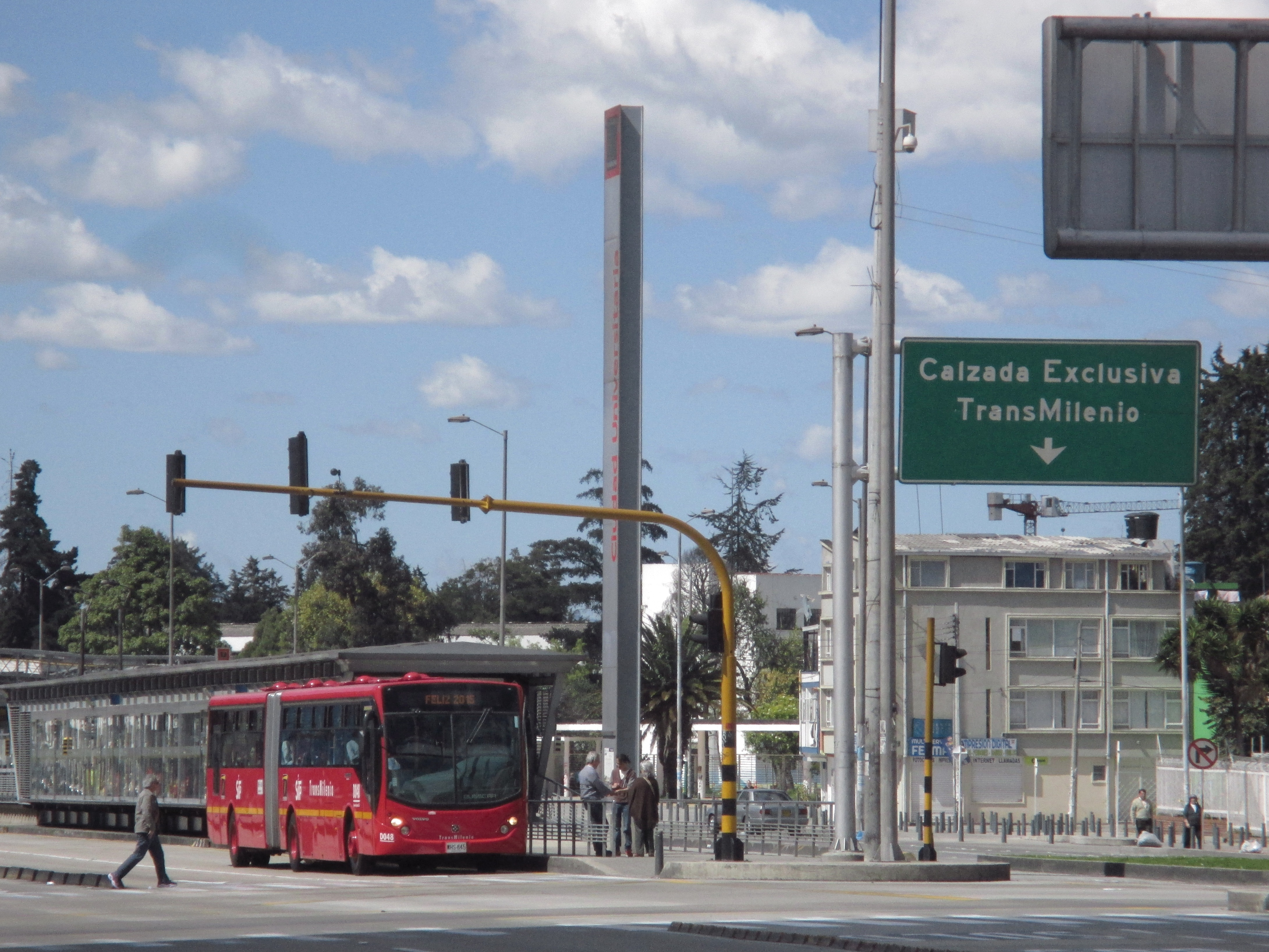 Bogotá